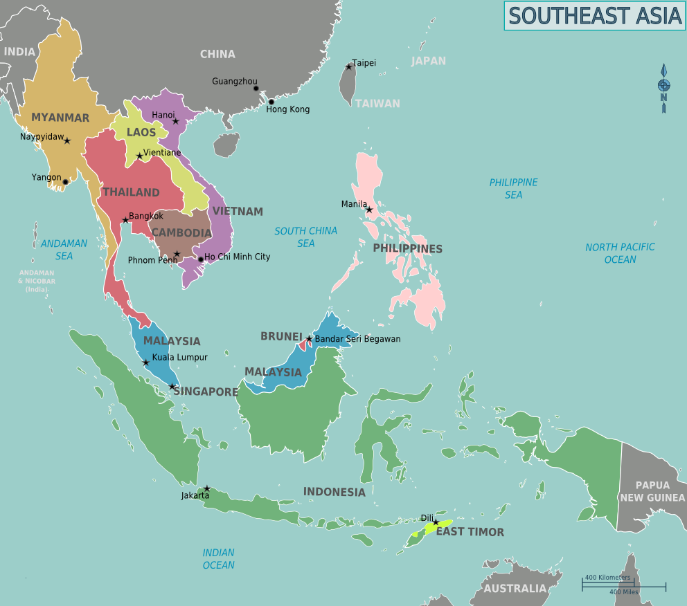 Map of Southeast Asia for use on Wikivoyage, English version